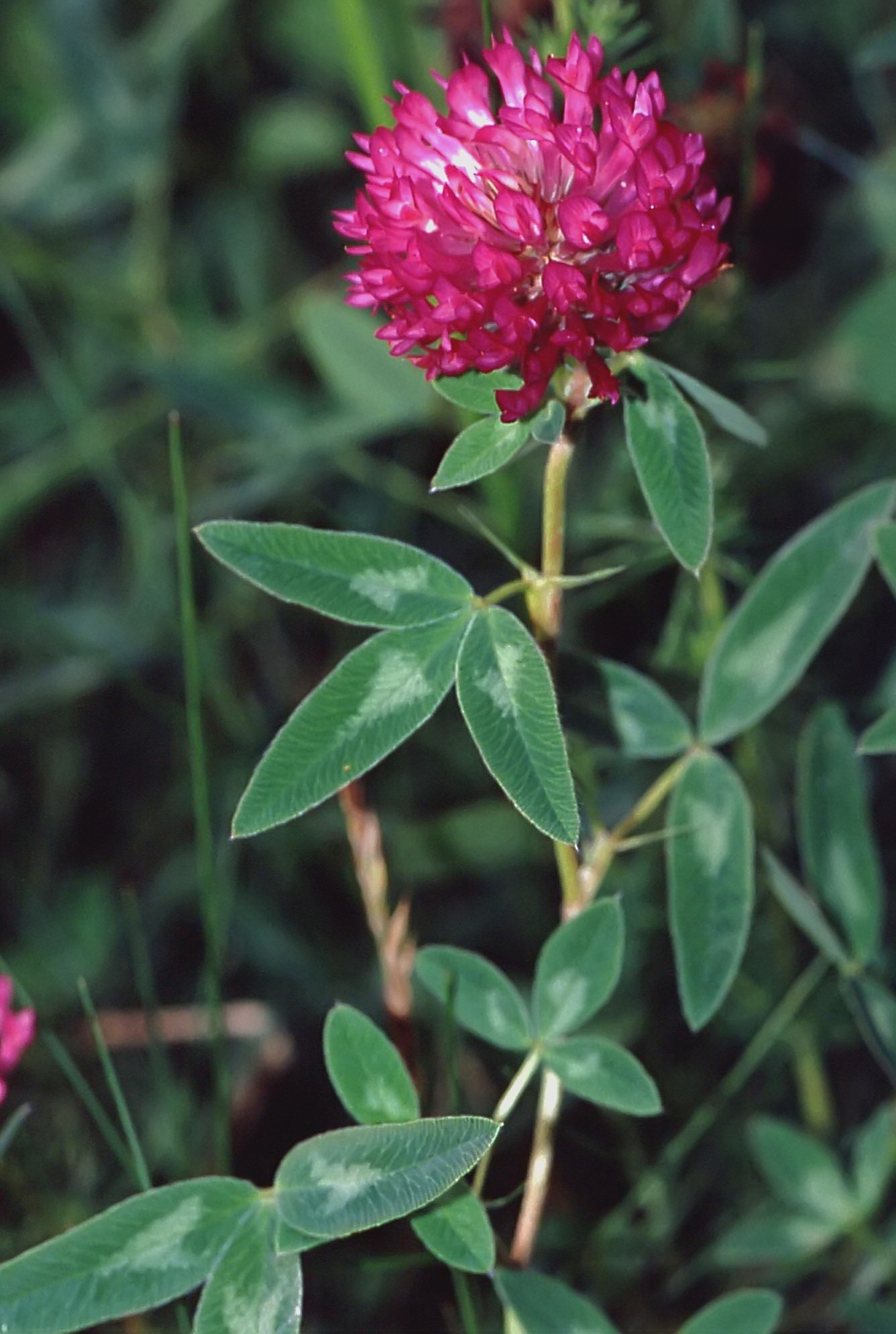 Flowering Zigzag Clover (Trifolium medium).